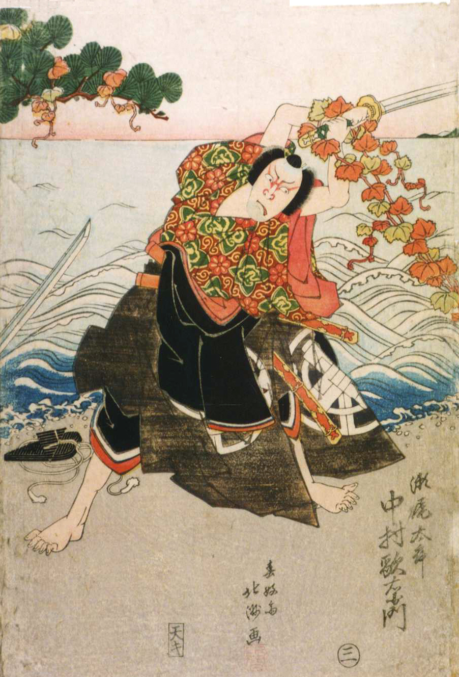 “Utaemon Nakamura III as Seno-o no Tarō” in Heike Nōgo-ga-shima in the September 1824 production of Heike Nyōgo-ga-shima at Osaka Sumi-za, by Hokushū Shunkōsai